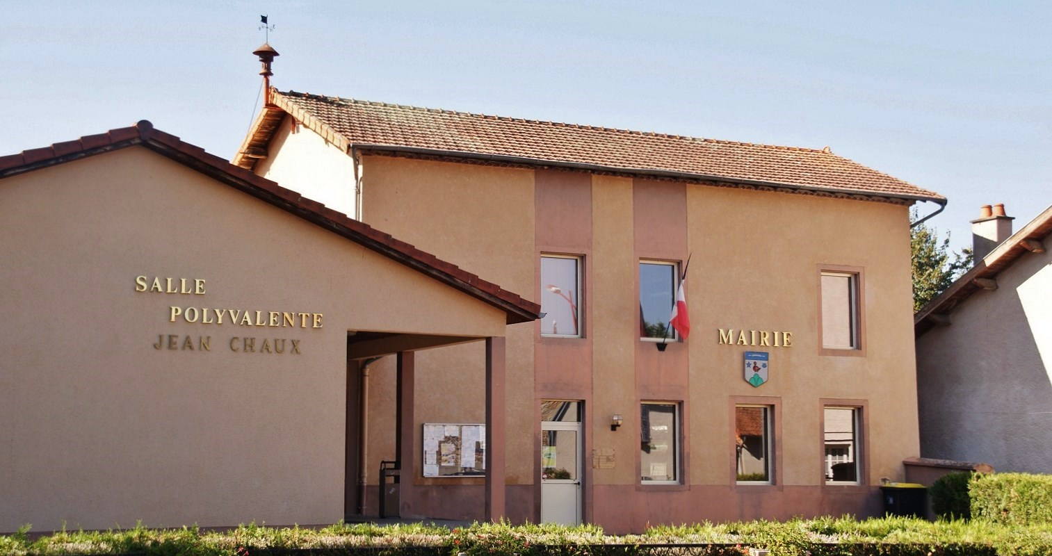 La Mairie